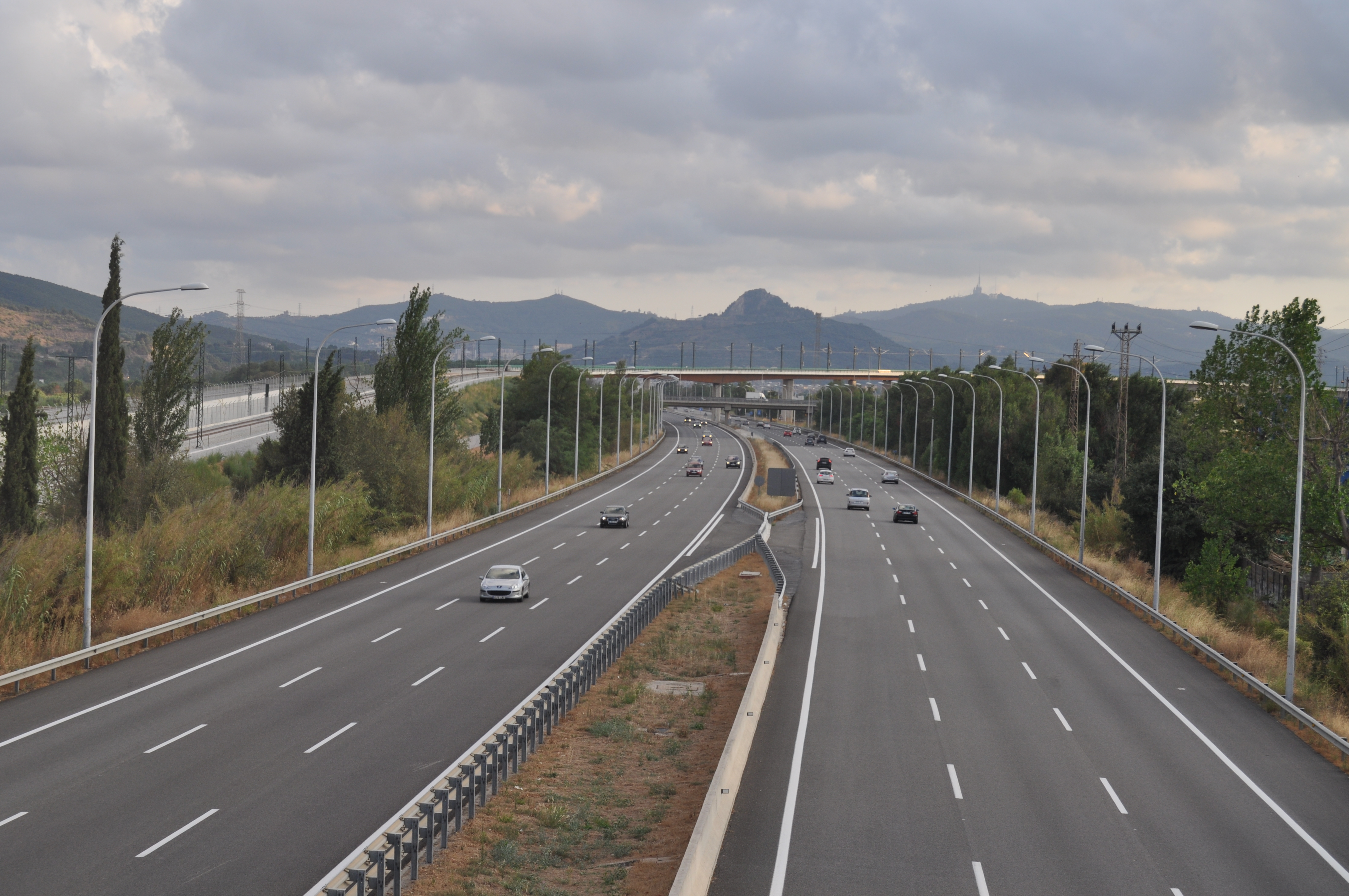 Autopista C-33 in Mollet del Vallès (Spain).